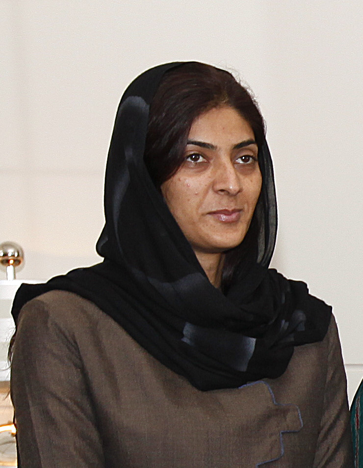 U.S. Secretary of State Hillary Rodham Clinton standing with female Afghan politicians in Kabul, Afghanistan.